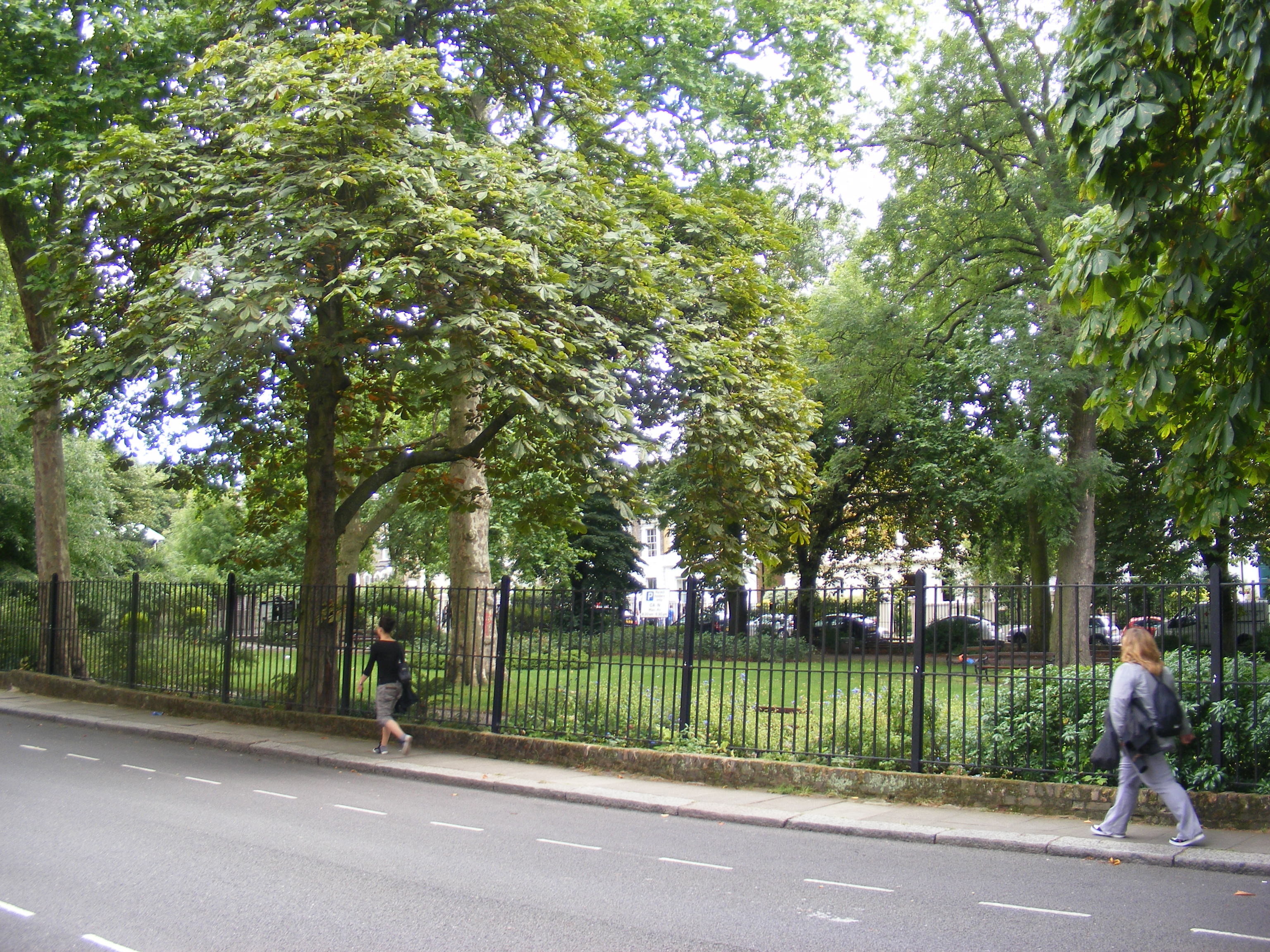 Amy's residence is visible in the background